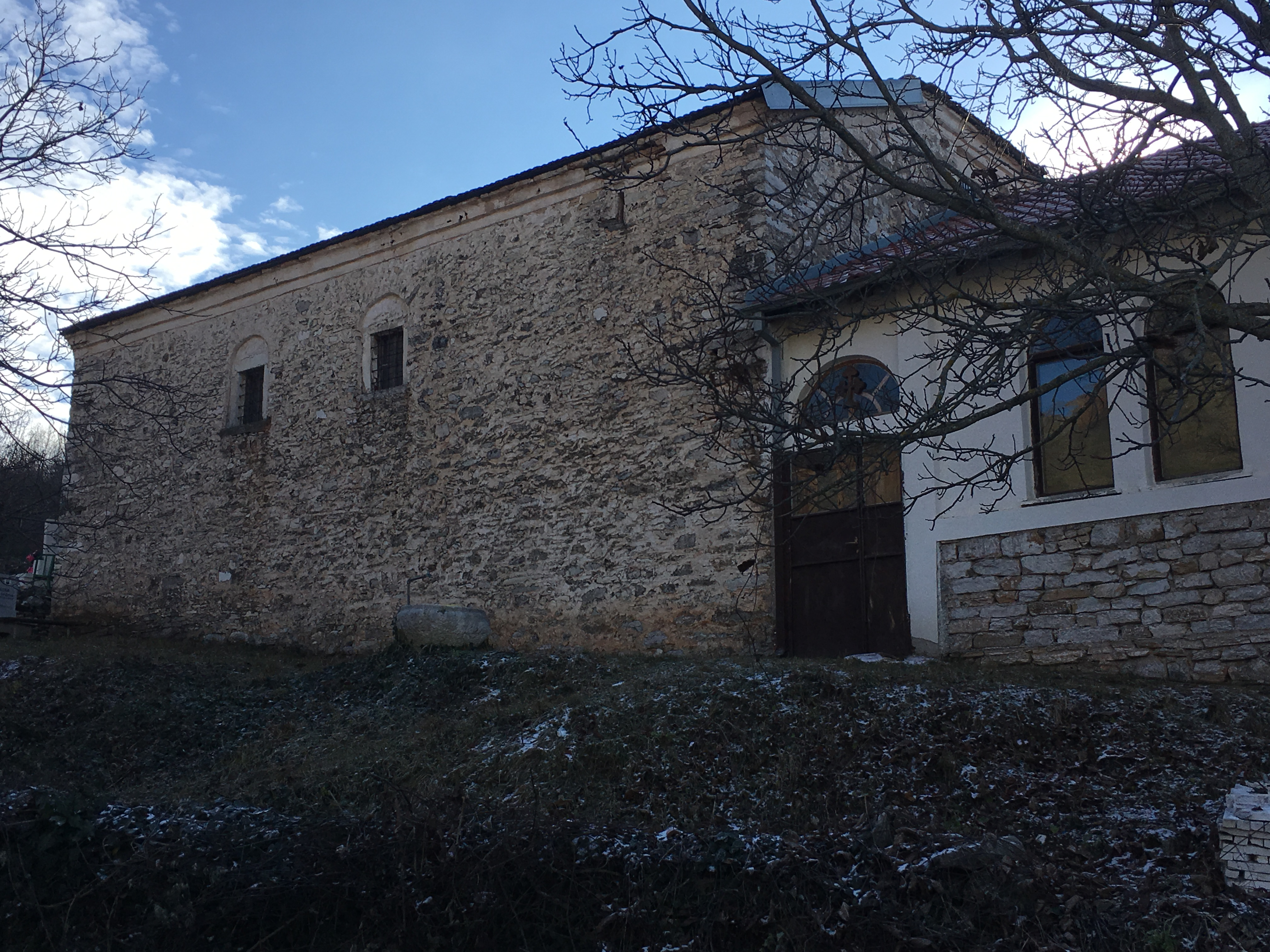 Ss. Cosmas and Damian Church in the village of Pletvar